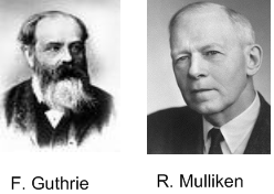 guthrie & mulliken